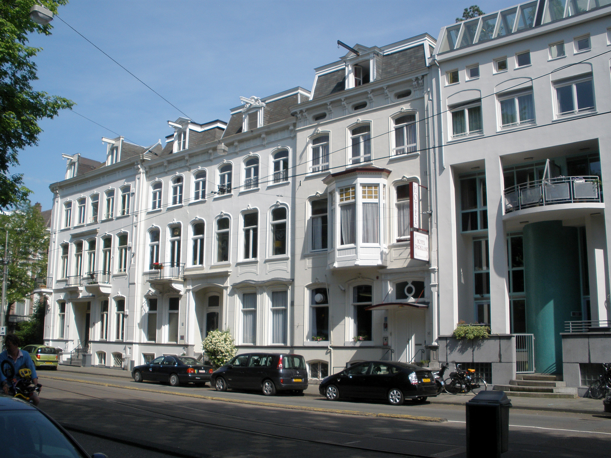 19th-century mansions on Plantage Parklaan in Amsterdam. These houses received rijksmonument (national monument) status in 2001.